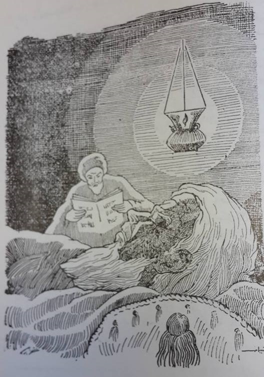 A Drawing of Saladin on his death bed.